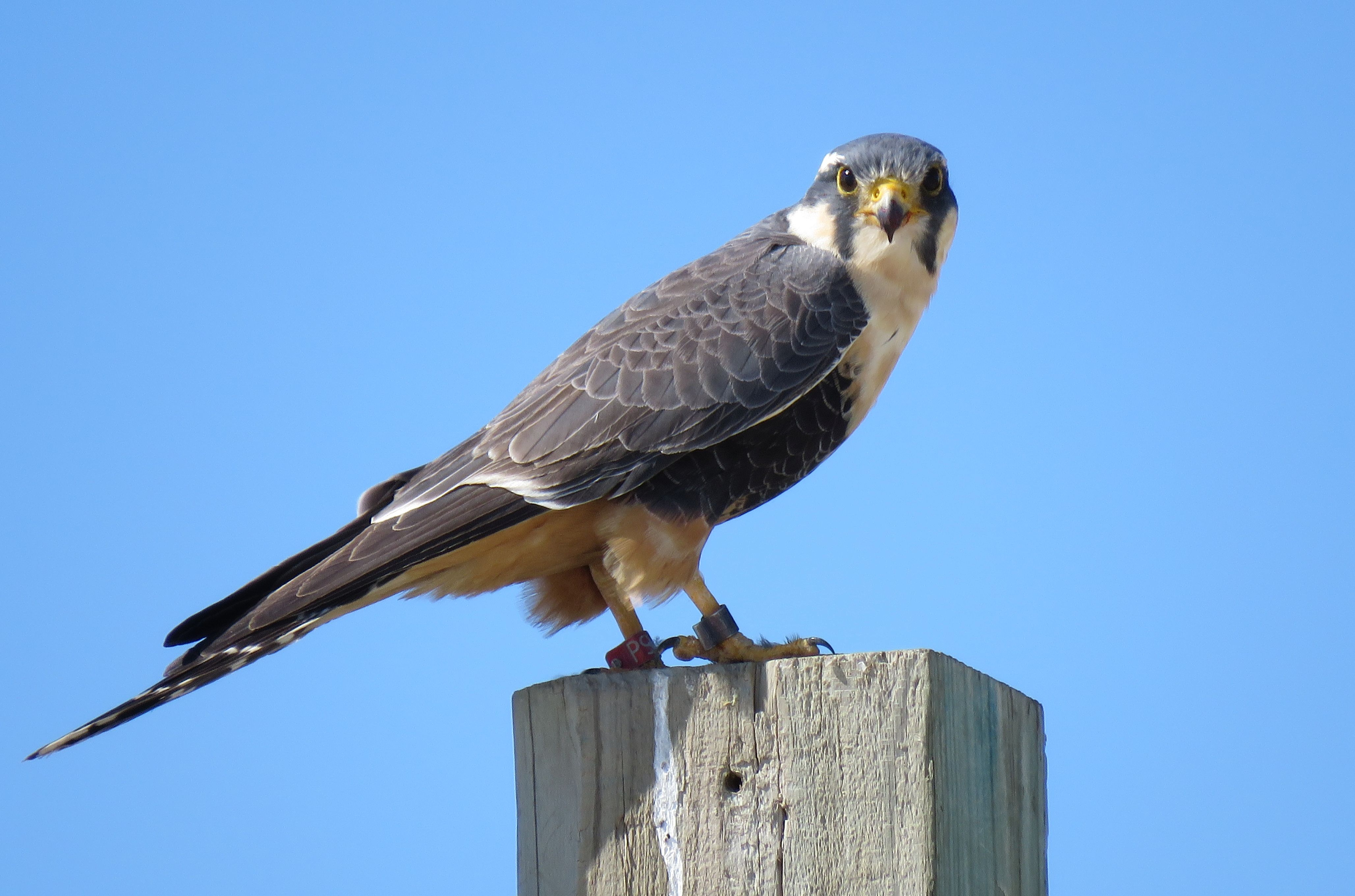 This is a photo I took of a Apolomado Falcon ,on a fishing trip to Padre Island National Seashore in south Texas. The Aplomado Falcon was once common in dry grasslands of the southwestern United States, but it's now endangered in the U.S. and is being reintroduced in south Texas. What makes this photo so amazing, is the fact that it has bands on both legs. Bands are used by researchers to track the movements of individual birds to provide a better understanding of their life cycles and migrations.